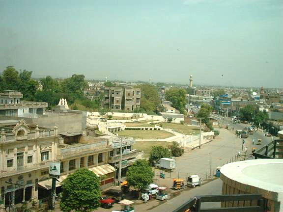 Author, Shahzad Khan, Free to Use, Jhelum City's Arier View